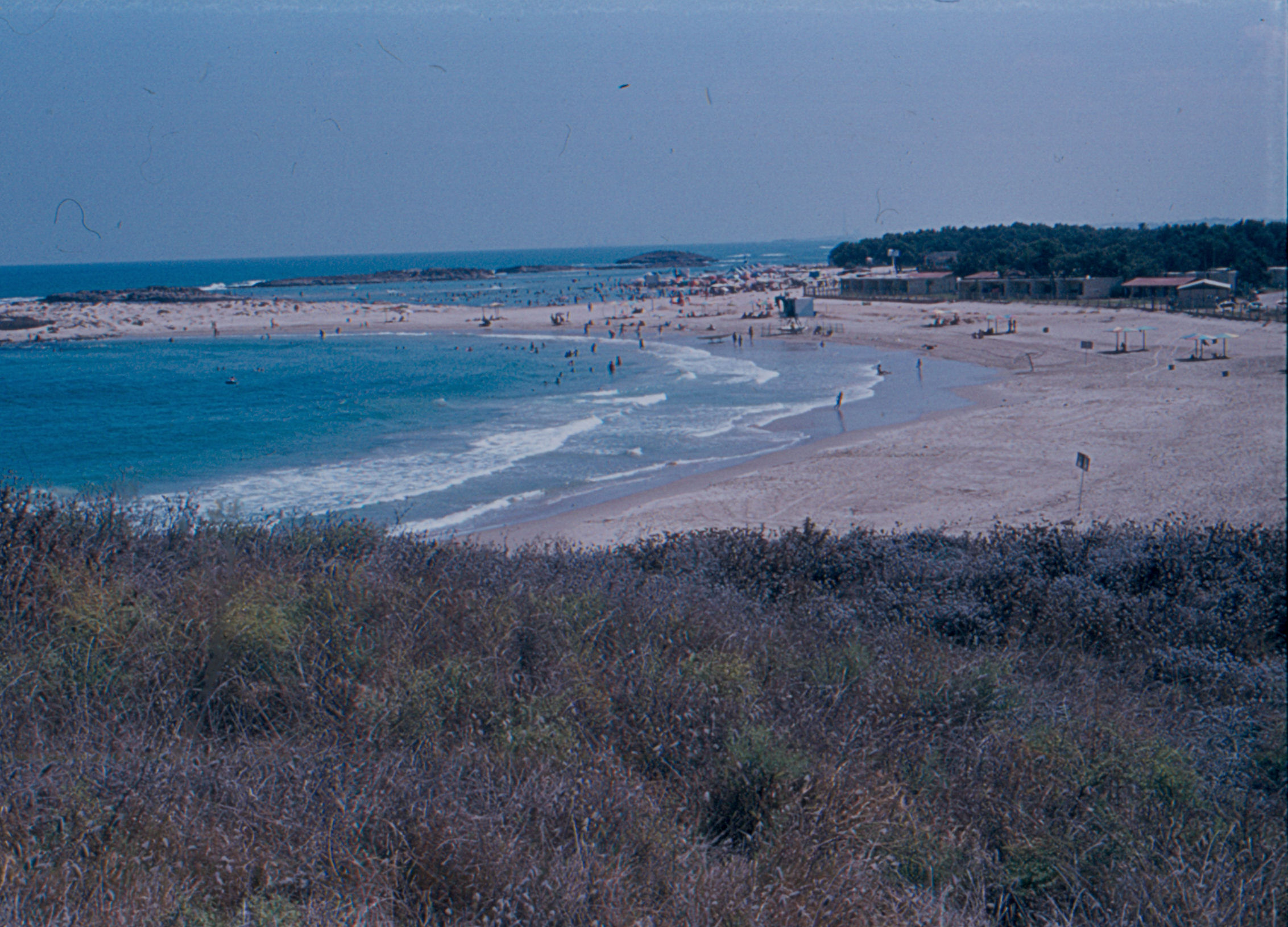 Dor_beach